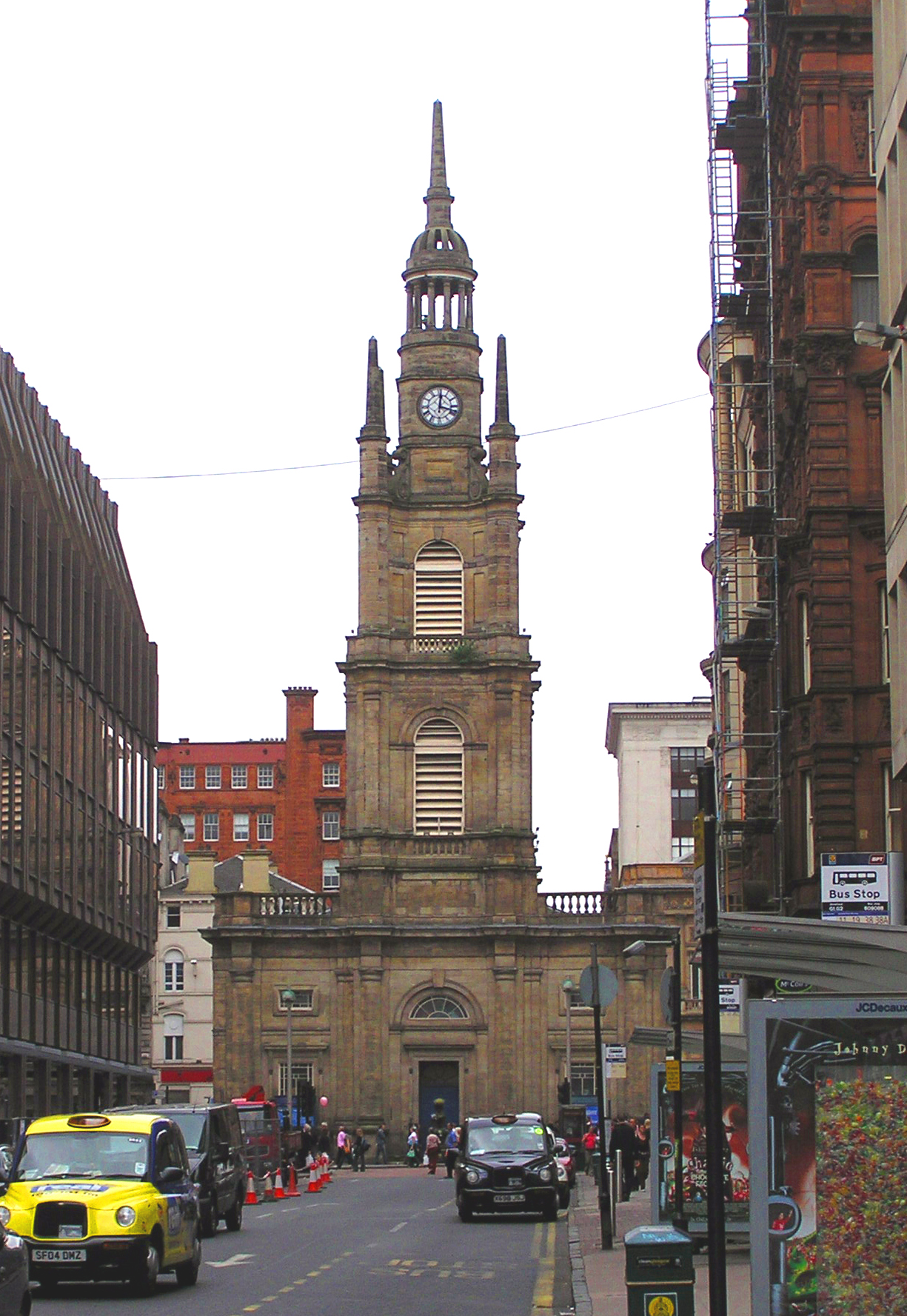 St George's-Tron Church, Glasgow Taken by Finlay McWalter on 24th of July 2005.